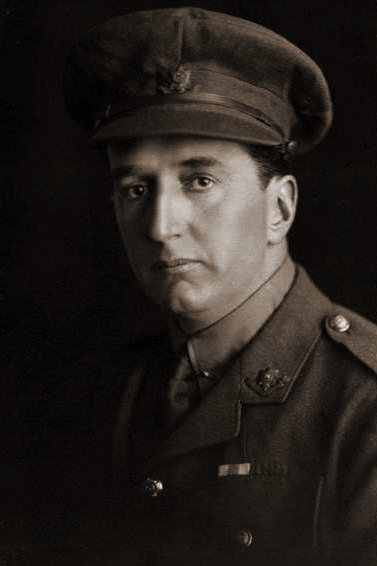 Stanley Bruce, who served as Australian Prime Minister 1923-29, during his service in the British Army in World War I